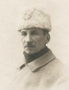 PhD Thorsten Renvall (1868-1927), commander of the 1918 Pechenga expedition.